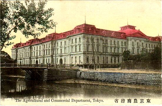 Commemorative postcard of Japanese Ministry of Agriculture and Commerce, circa 1890s